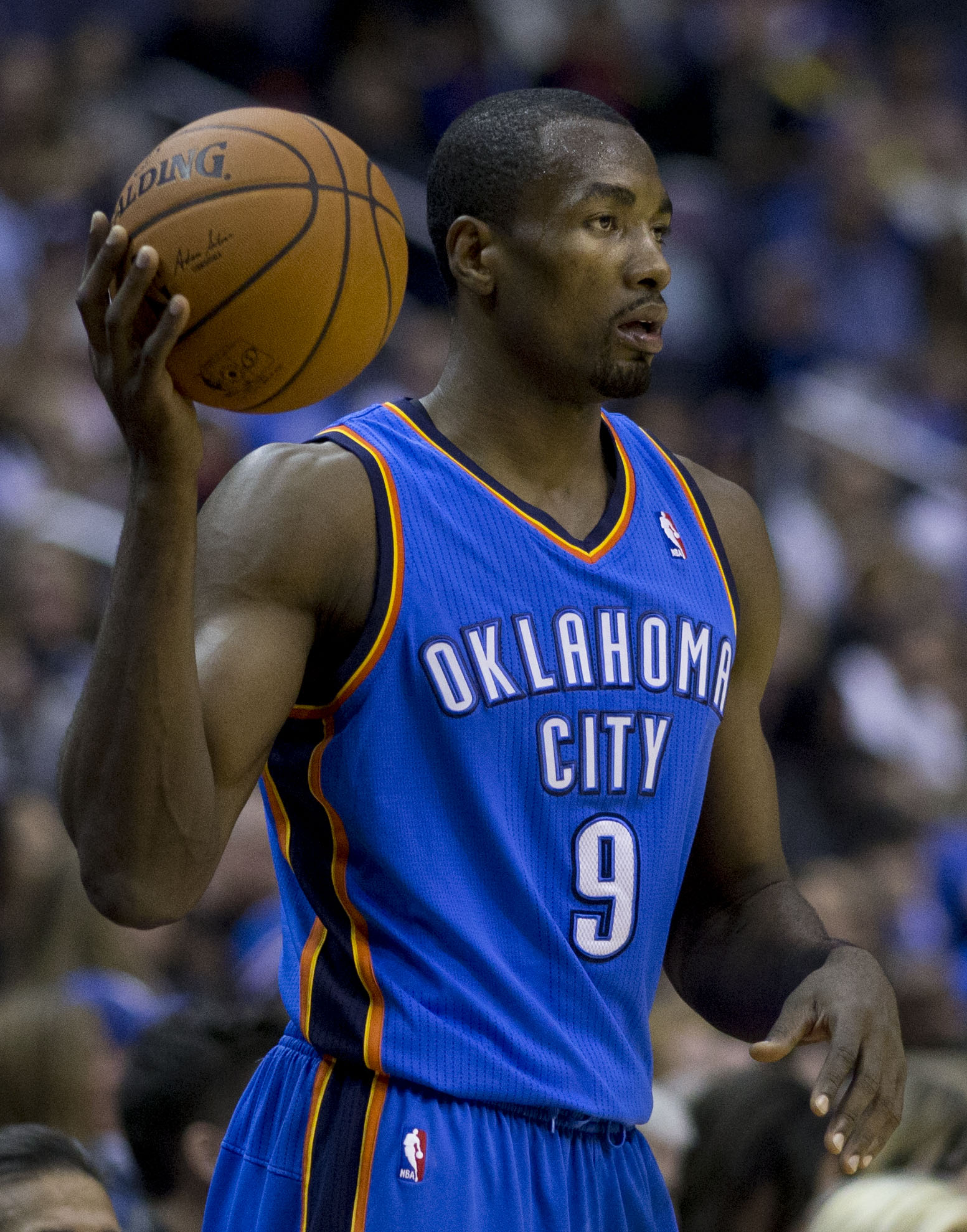 Thunder at Wizards 2/1/14